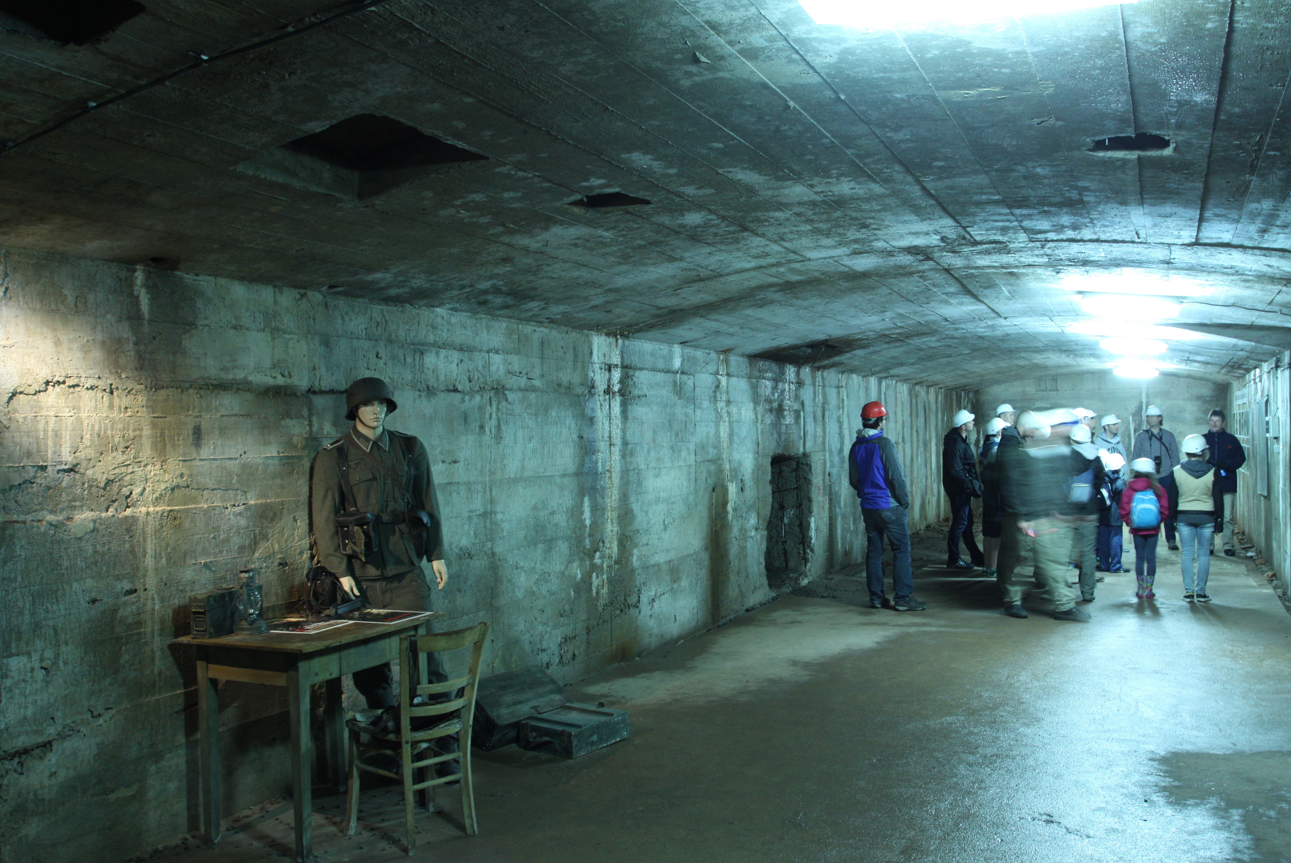 Image from the Complex Osówka, part of underground town build by Nazi Germany during the project Riese. The complex is located near the villages of Kolce and Sierpnica, inside Osówka Mountain, now in Poland.